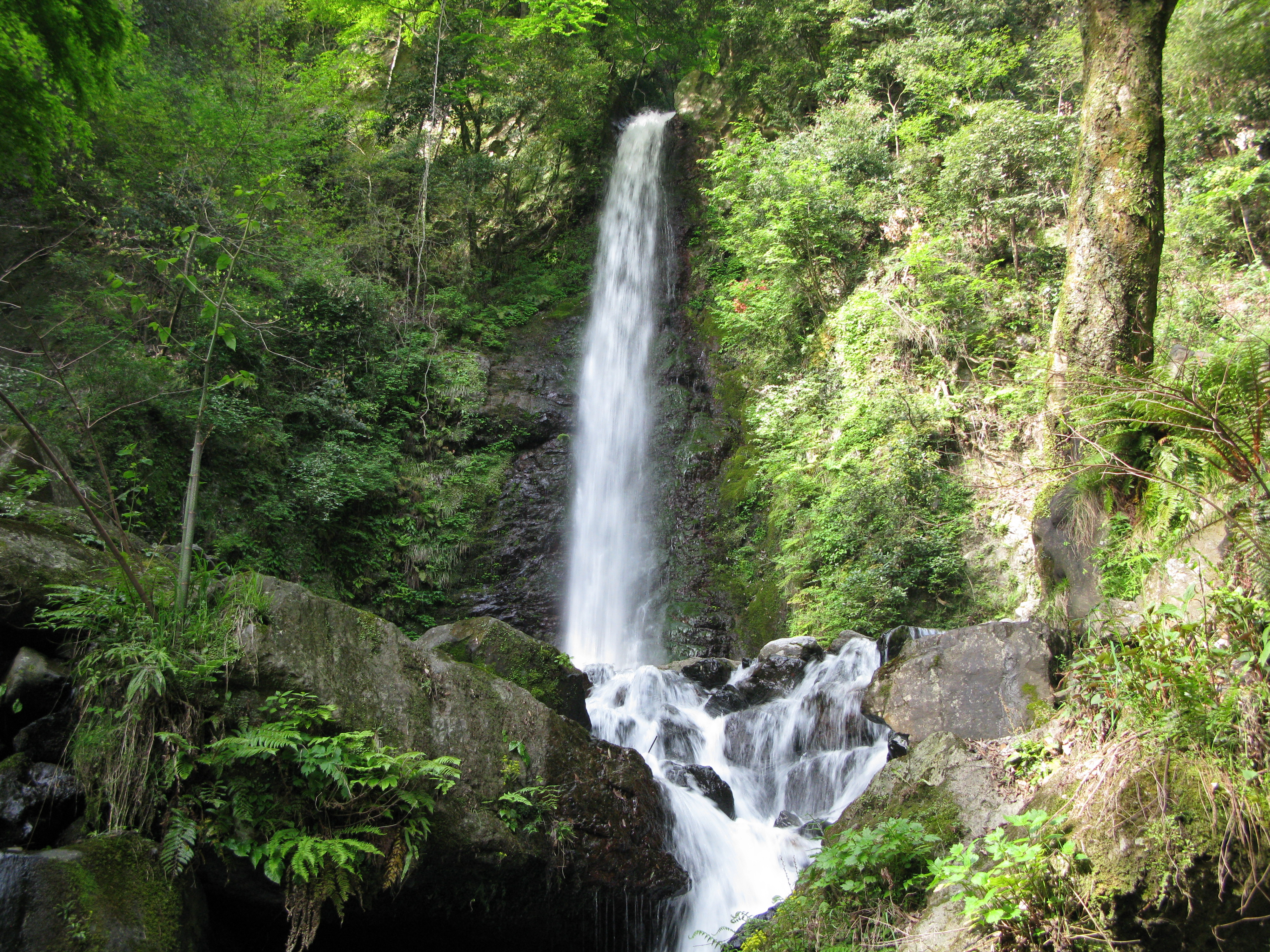 Yoro Falls in Yoro Town, Gifu Prefecture, Japan